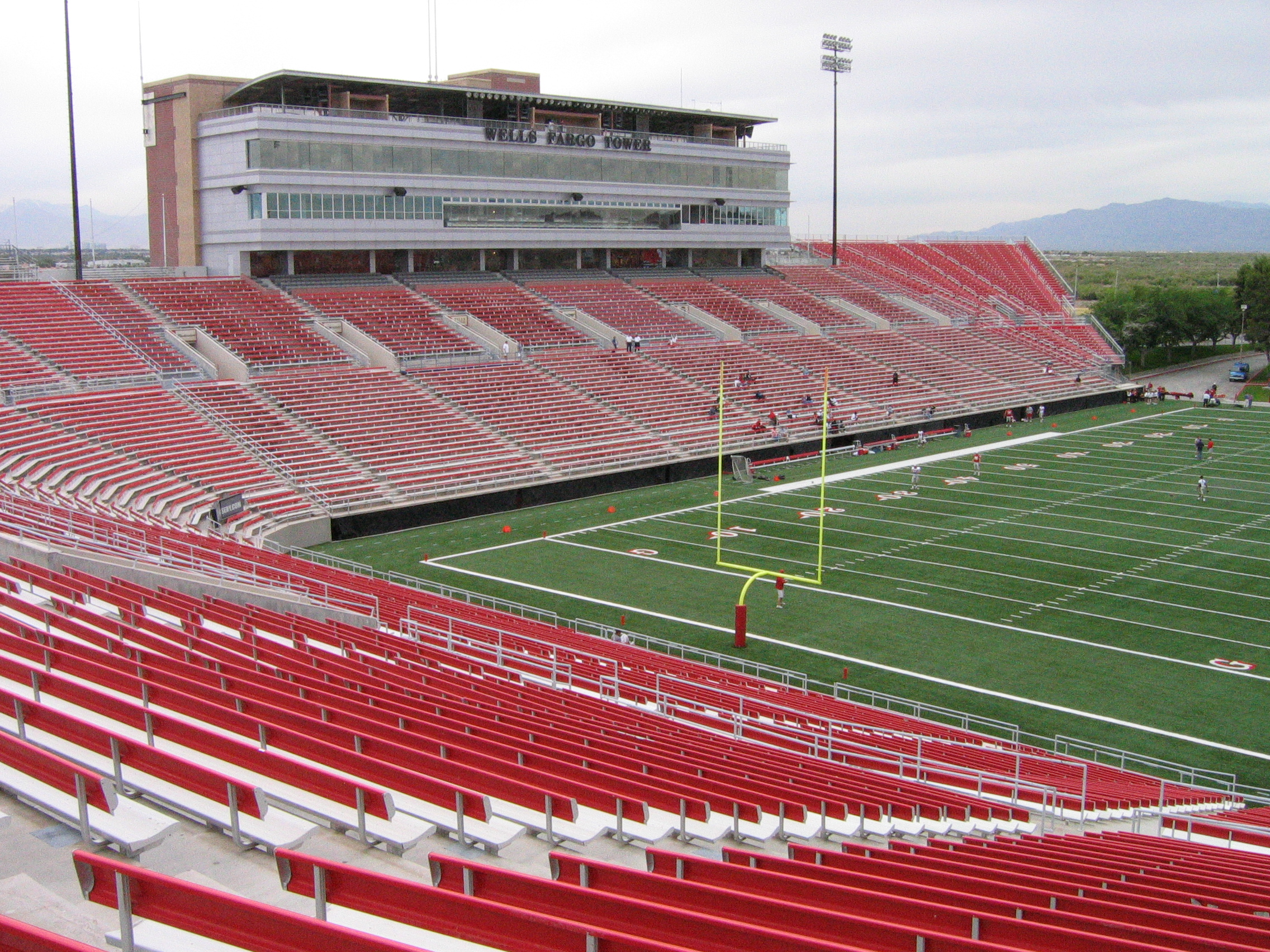 Took picture my self at UNLV 2004 Spring Game.